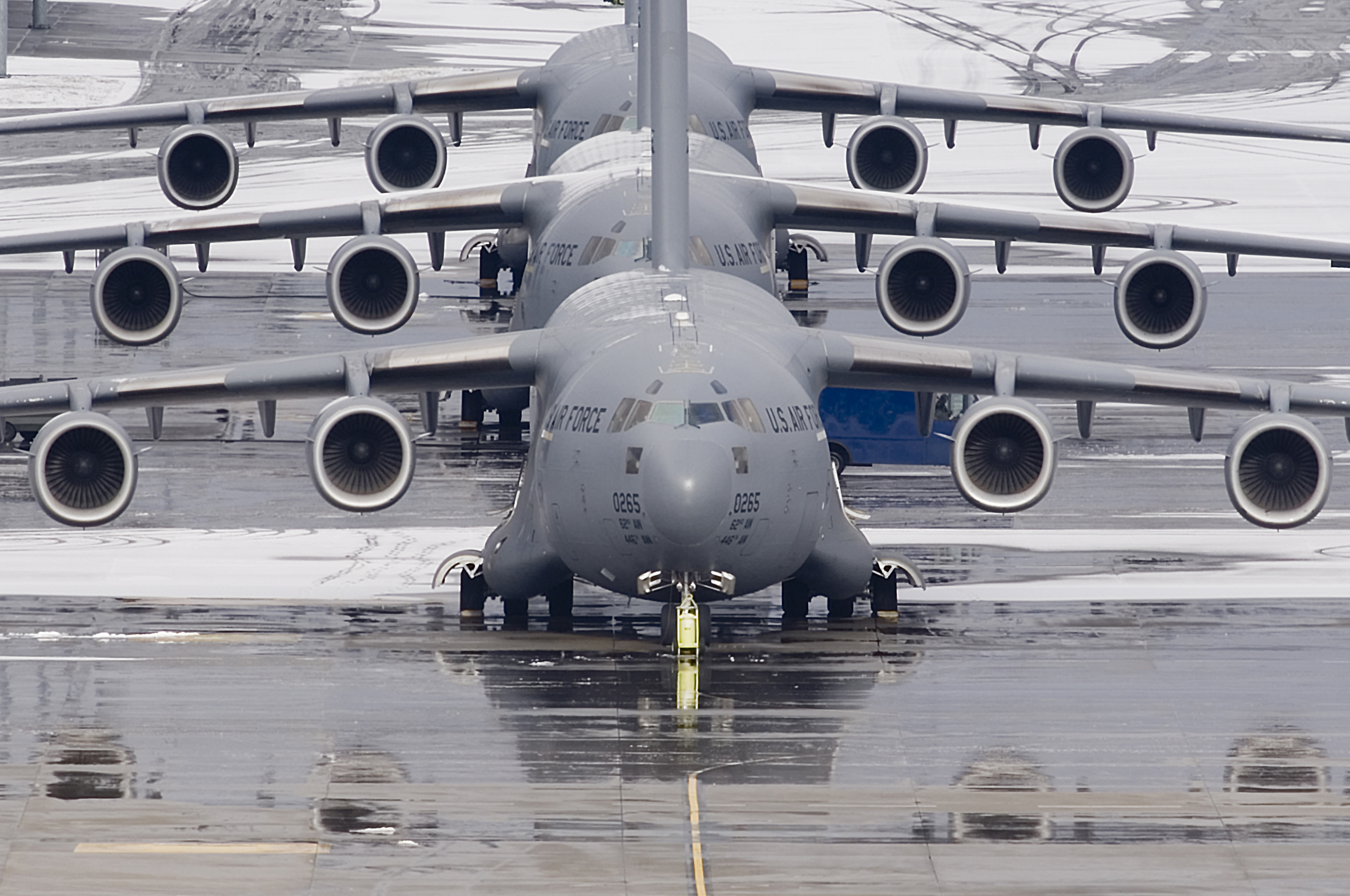 U.S. Air Force C-17 Globemaster III aircraft wait to be de-iced on the flight line of McChord Air Force Base, Wash., on Jan. 28, 2008. Air Force maintenance personnel from the 62nd Aircraft Maintenance Squadron will de-ice the aircraft prior to launch.